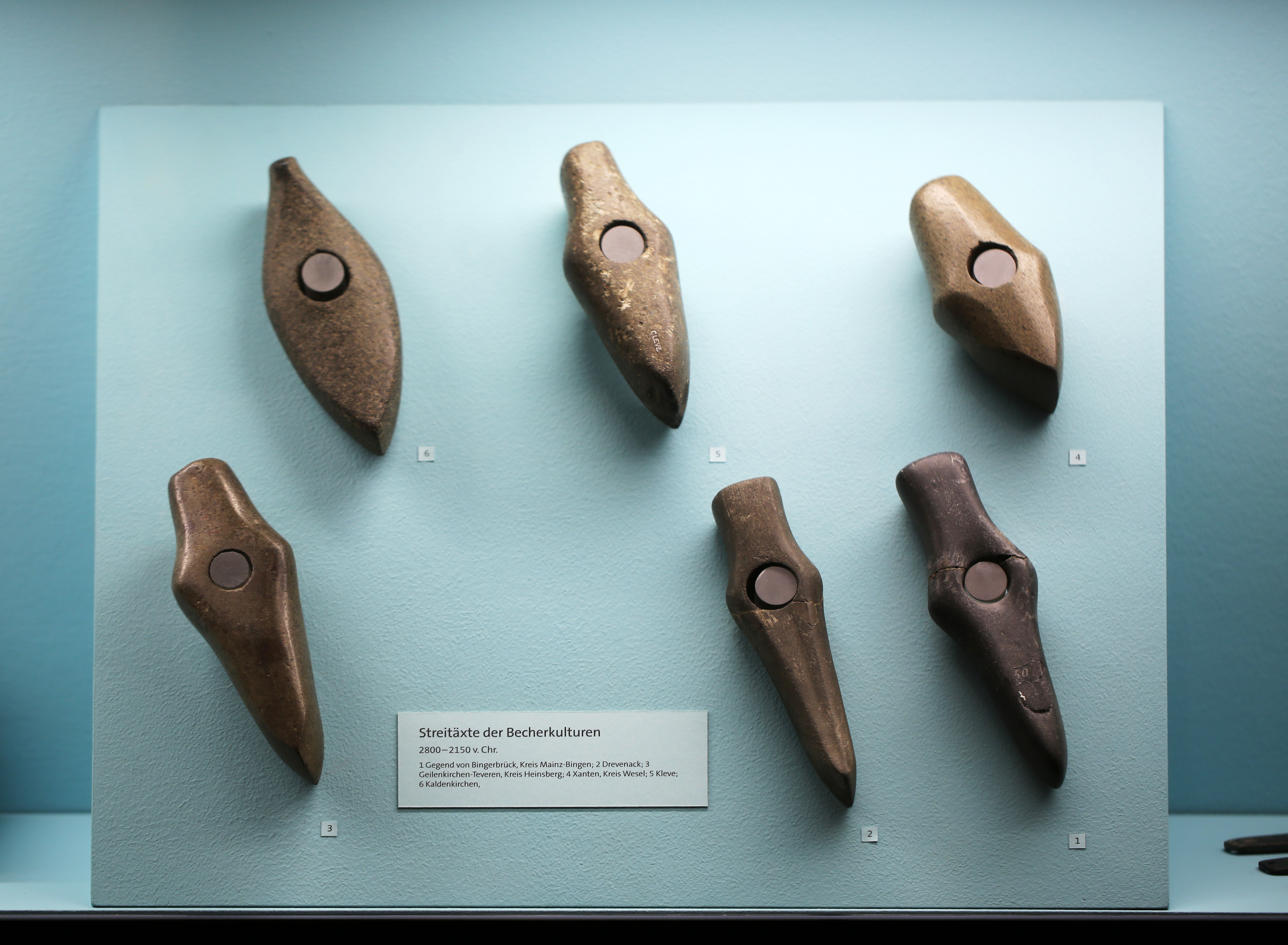 Neolithic war axes, Collections of the Rheinisches Landesmuseum Bonn, Germany